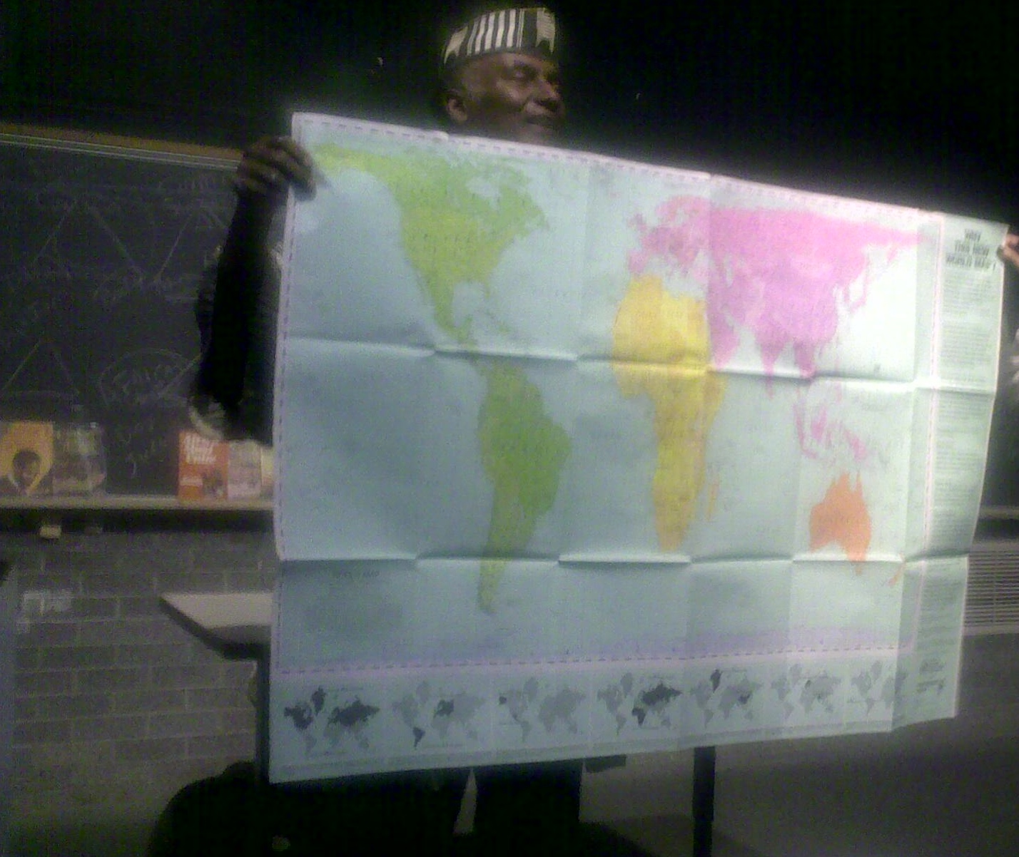 Leonard Jeffries holds up a Peters map, discussing the sizes of the land masses in relation to each-other.